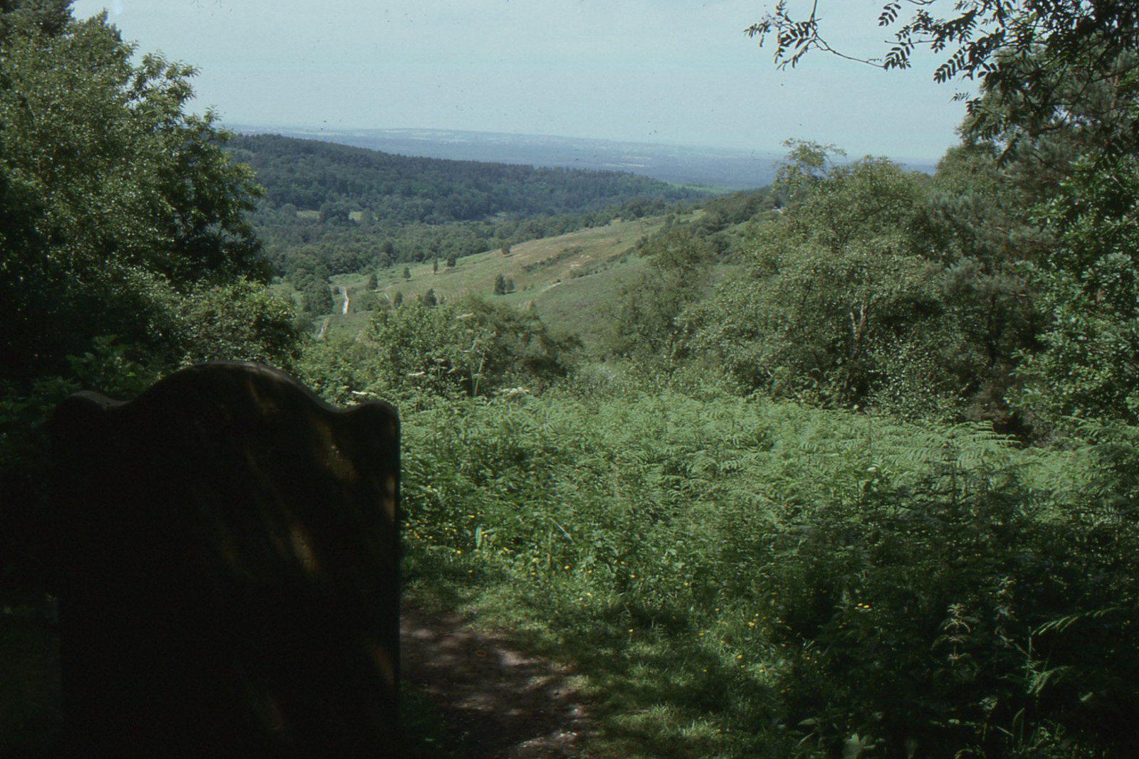 Devil's Punch Bowl, from the memorial stone on Gibbet Hill